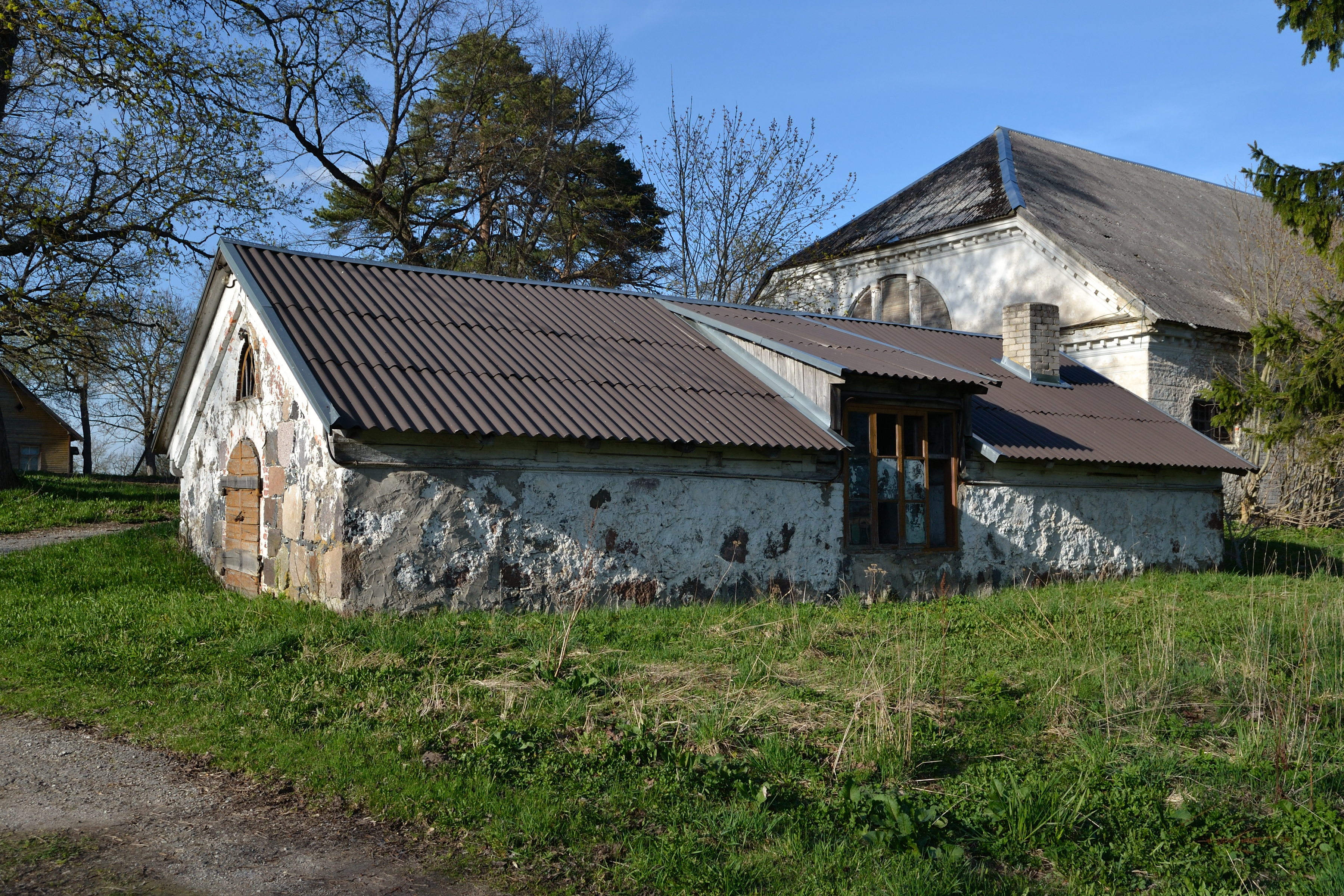 Käravete manor cellar